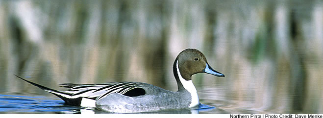 Many different kinds of migratory and native birds are found at the Baskett Slough National Wildlife Refuge, including the Northern Pintail. This refuge is located in the Willamette Valley, east of Salem, Oregon. Credit: Dave Menke/USFWS